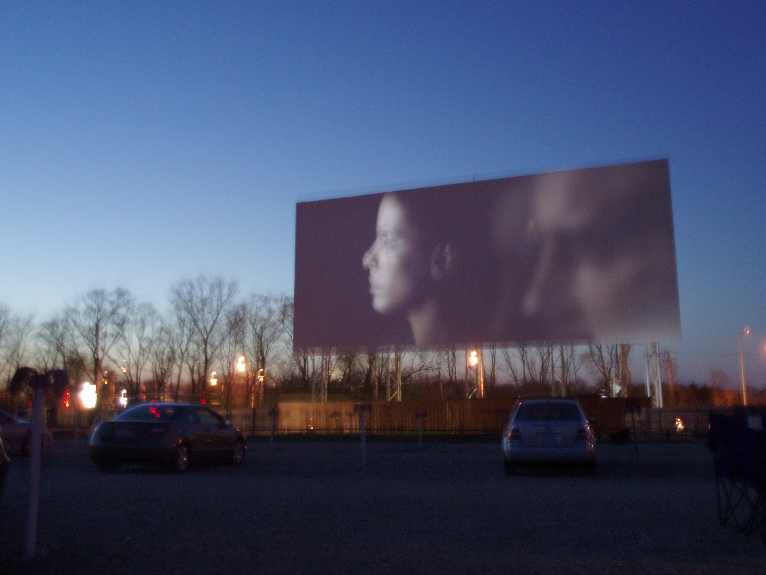 A drive-in in USA